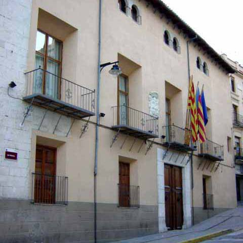 Ontinyent